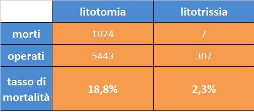 tabella